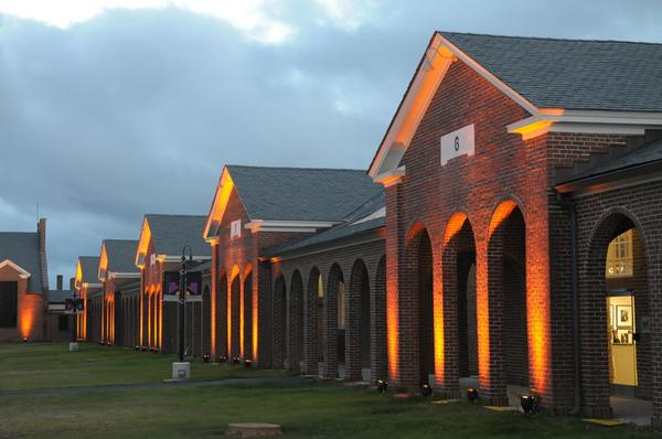 Photohgraph of the workhouse arts center